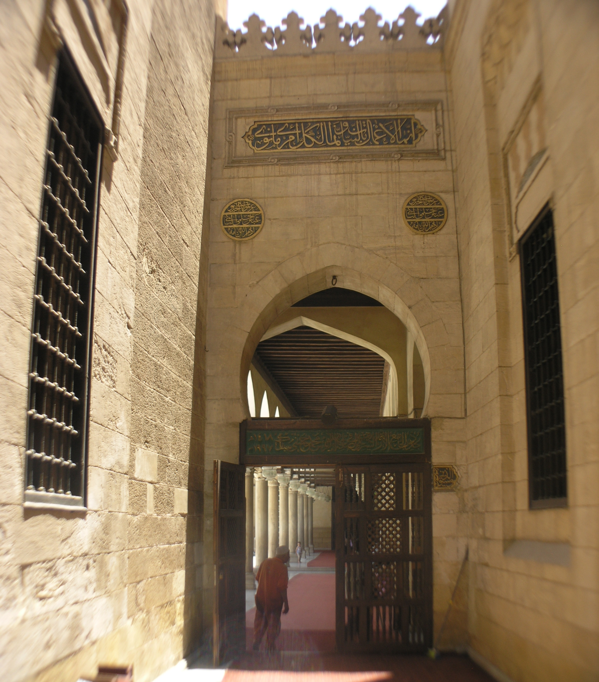 Cairo - Islamic district - Al Azhar Mosque and University - interior gate near women only area